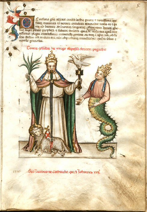 Pope John XXII and Antichrist